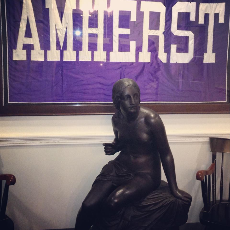 Photo of the statue Sabrina, the subject of traditional pranks at Amherst College.